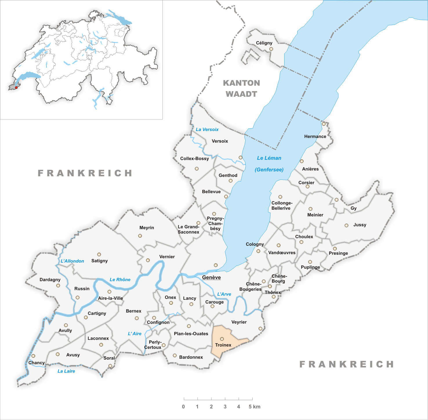 Municipality Troinex